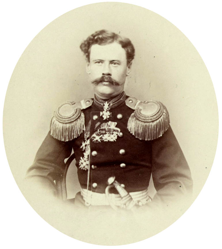 Tillo_Alexej_Andreevitch